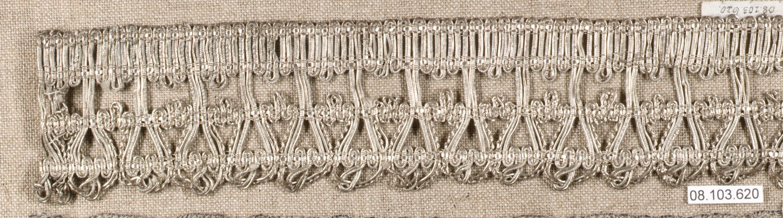 French or Italian; Galloon; Textiles-Trimmings